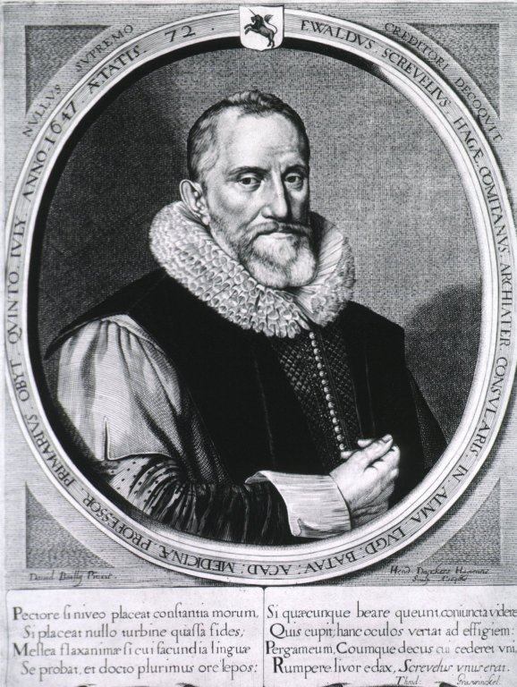 Ewaldus Schrevelius, rector magnificus Leiden University